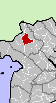 Chau Phu District, An Giang Province, Vietnam.